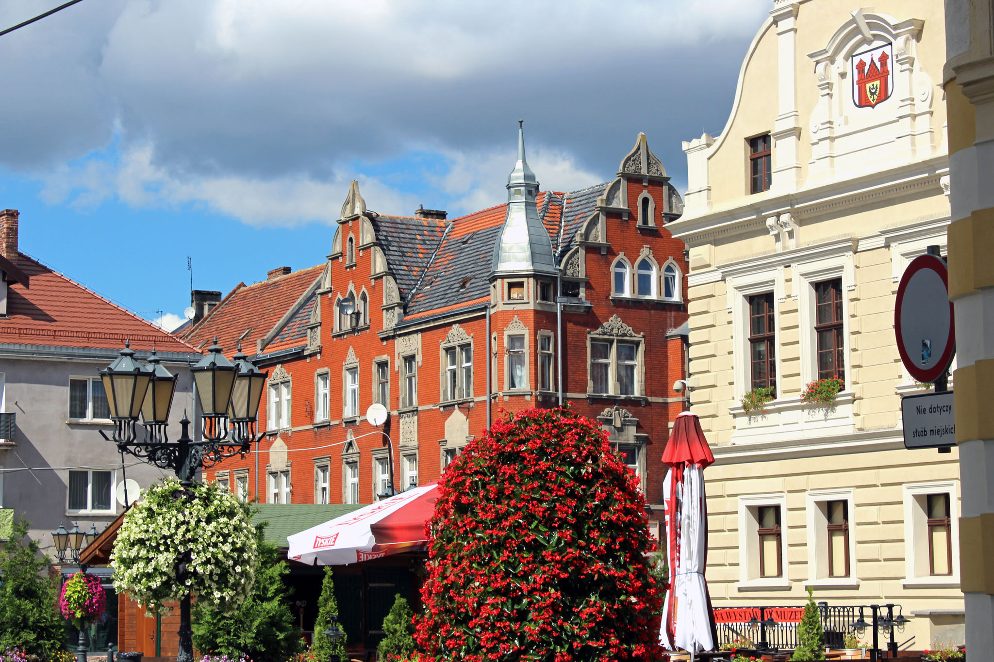 Wer dieses Bild benutzen möchte, der möge bitte den Link auf seiner Seite einbinden. If you want to use this picture, please implement the link on the website containing the picture.